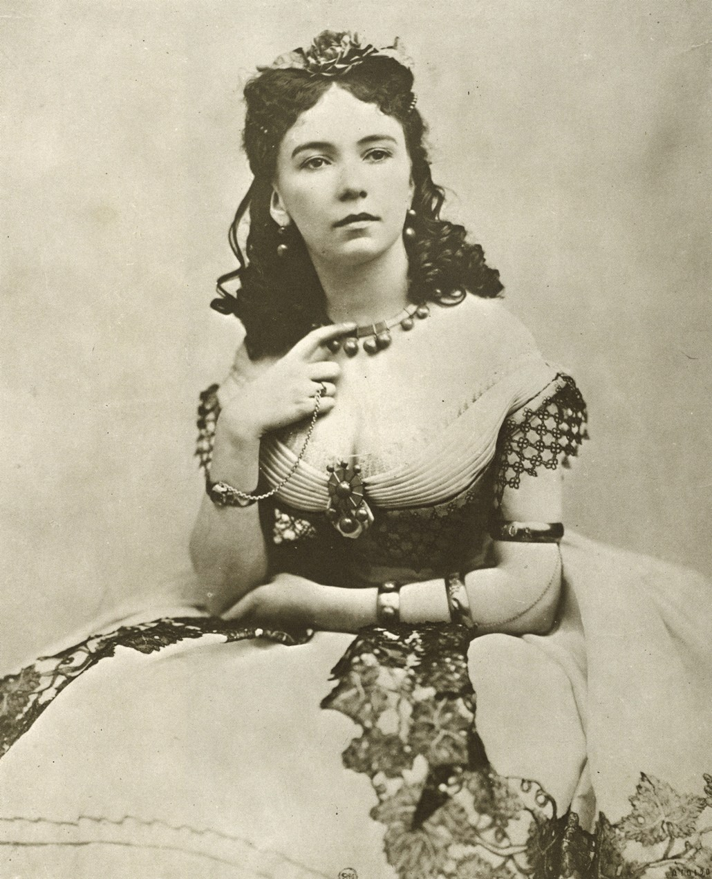 Cora Pearl (1835-1886) was a famous British courtesan of the 19th century French demimonde, born Emma Élizabeth Crouch.